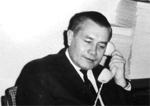 this picture represent Helmut Behrens in 1962